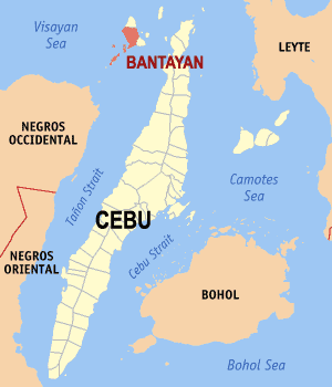 Map of Cebu showing the location of Bantayan